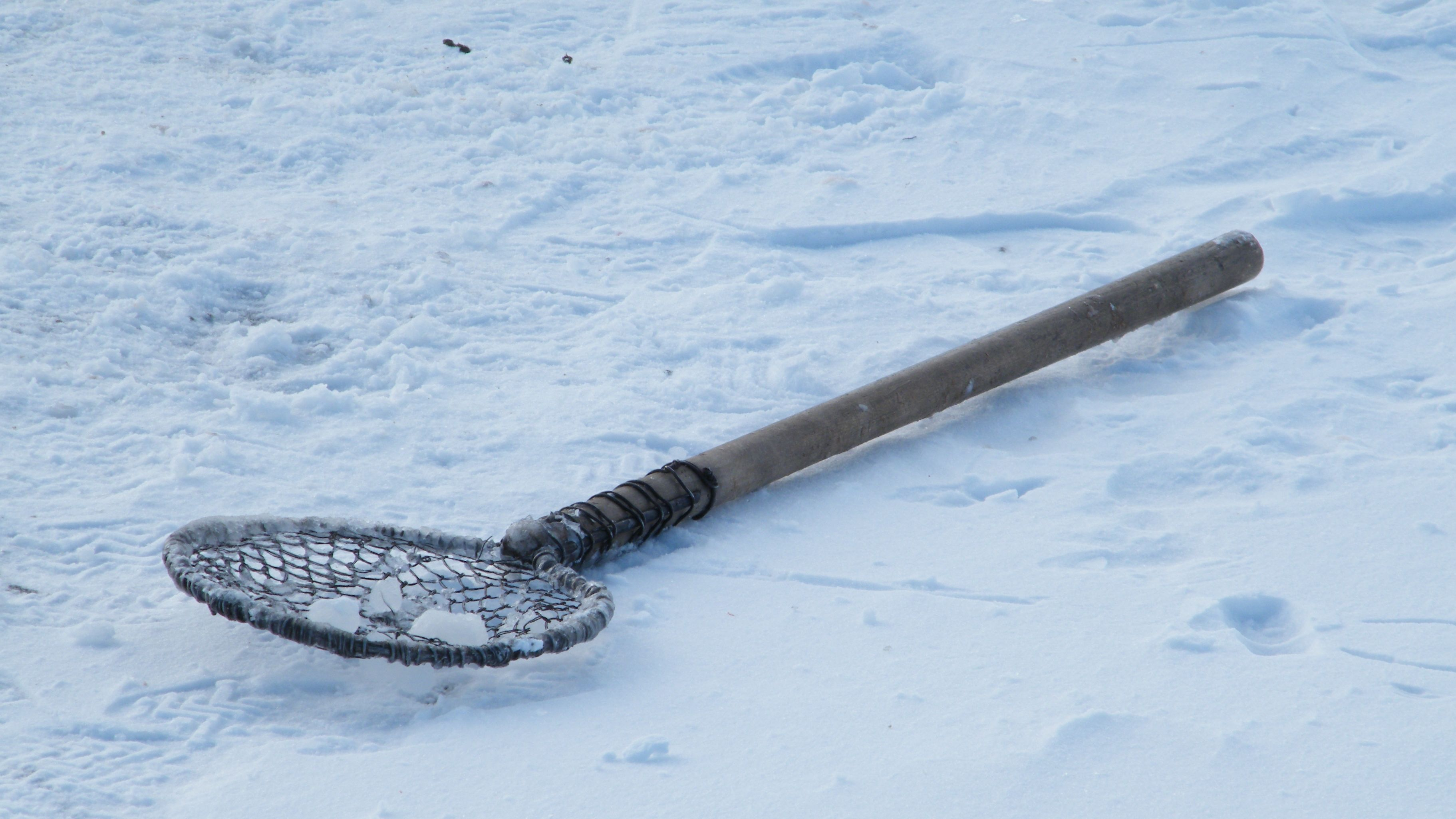 Ice fishing